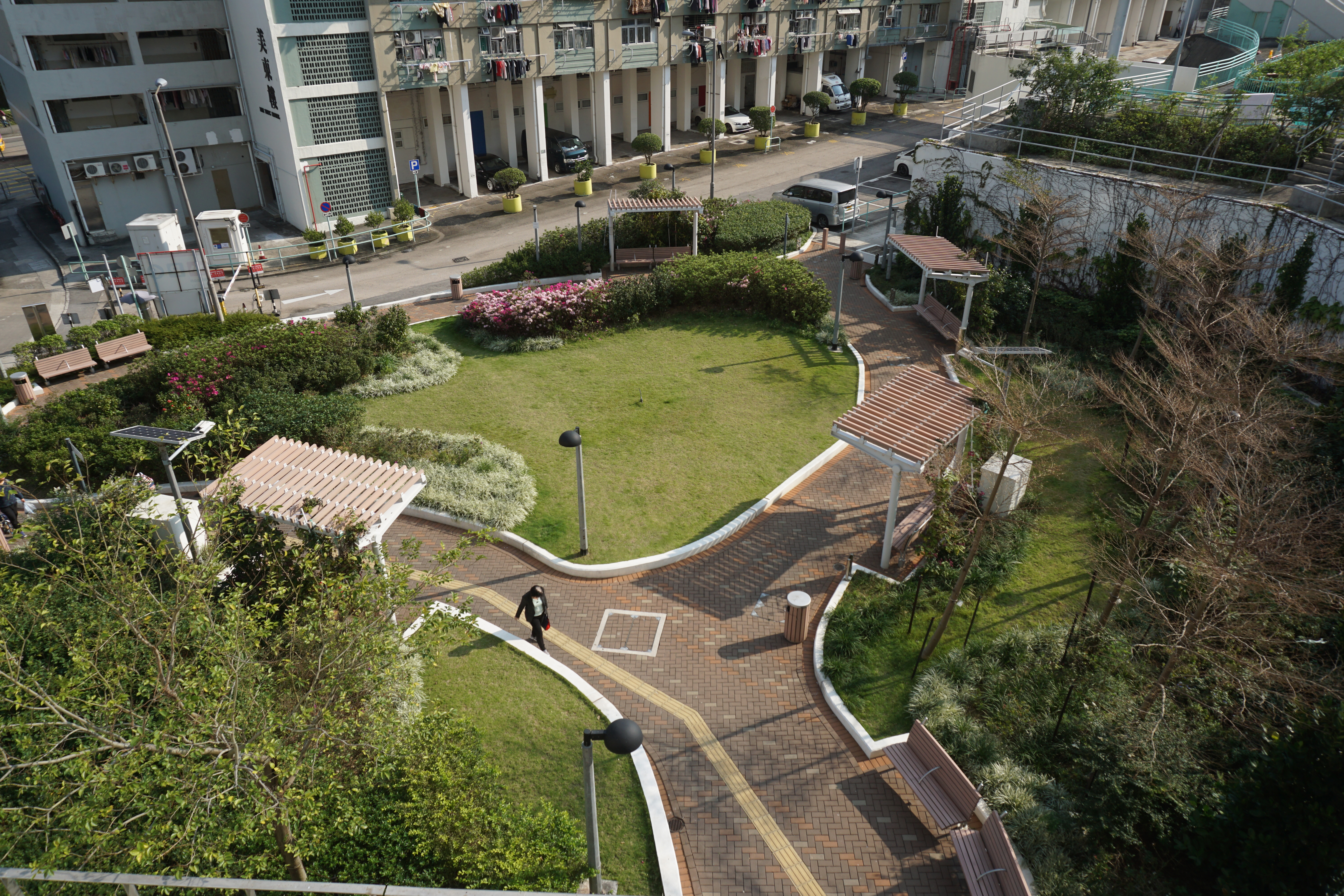 Mei Tung Estate in Kowloon City, Hong Kong.